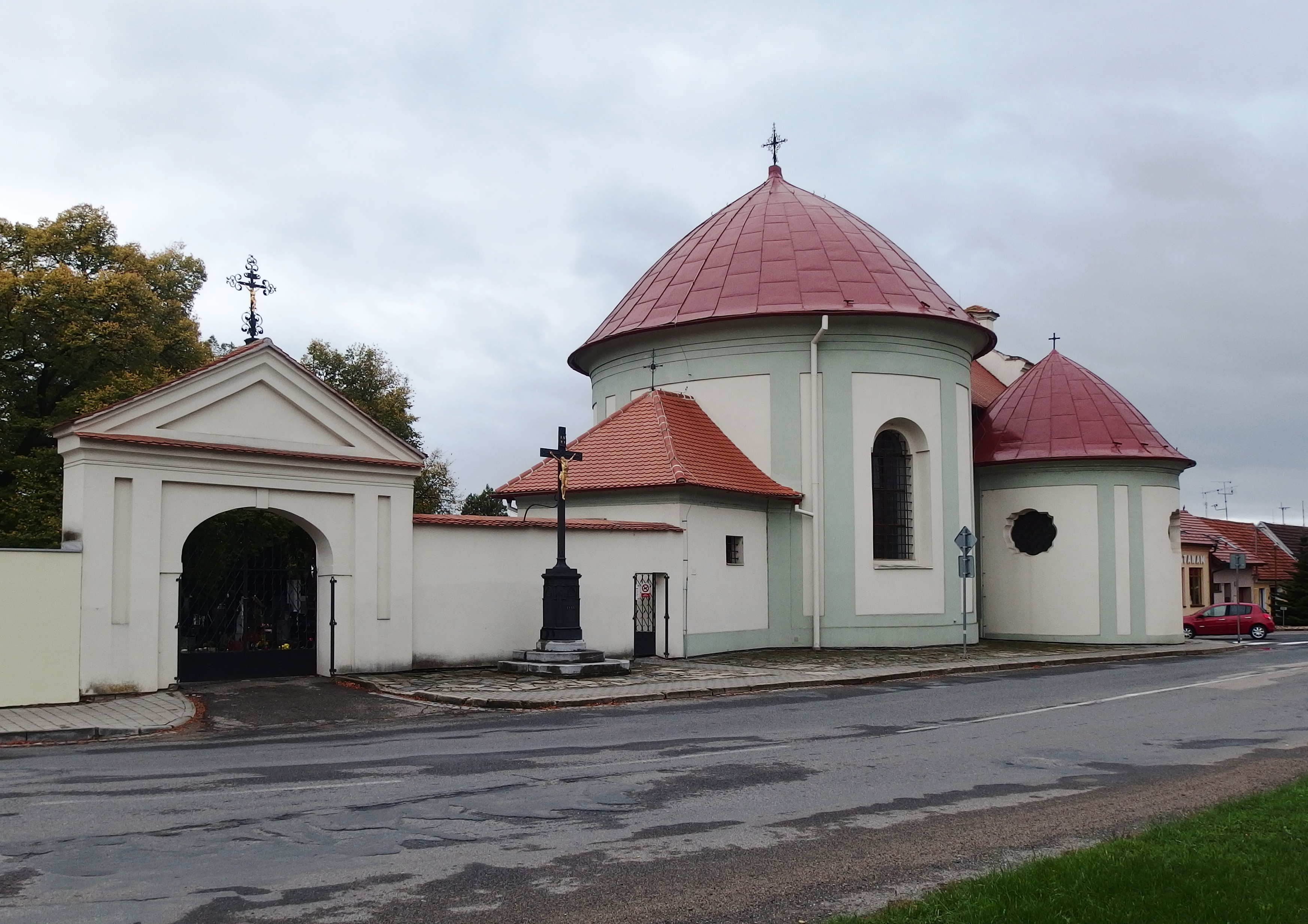 Slavkov u Brna in Vyškov District, Czech Republic.